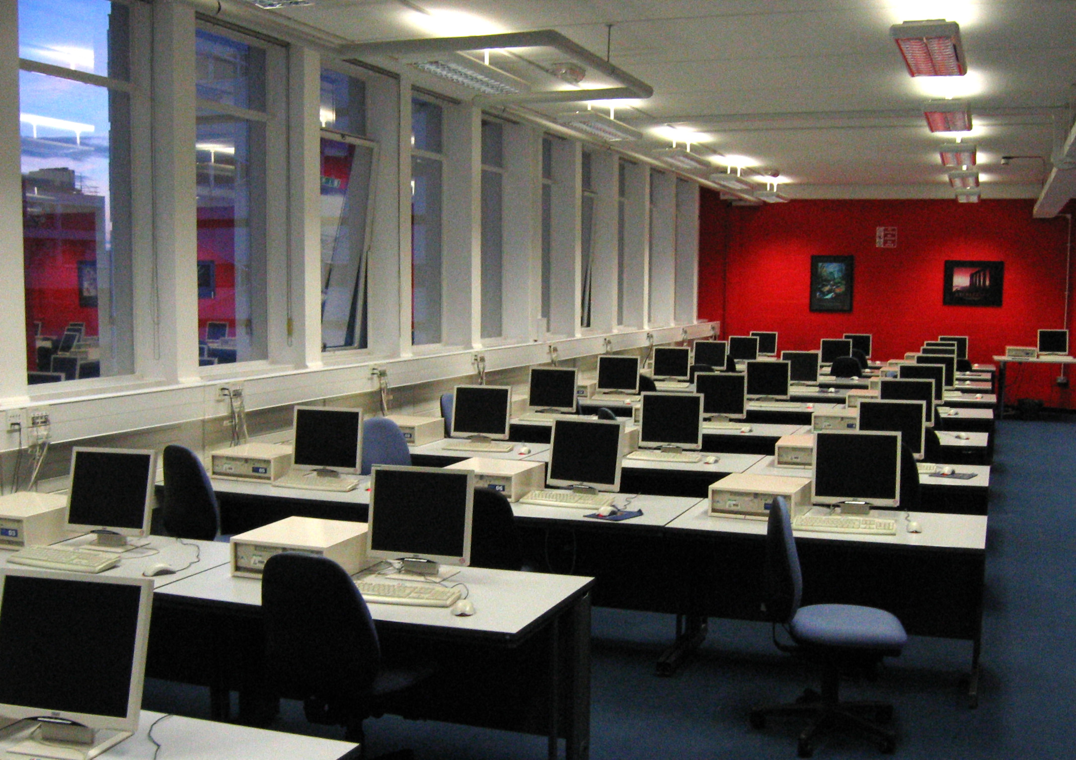 This is a photo of a computer lab on the University of Warwick campus. It shows a large number of desktop PCs with flat-panel monitors.